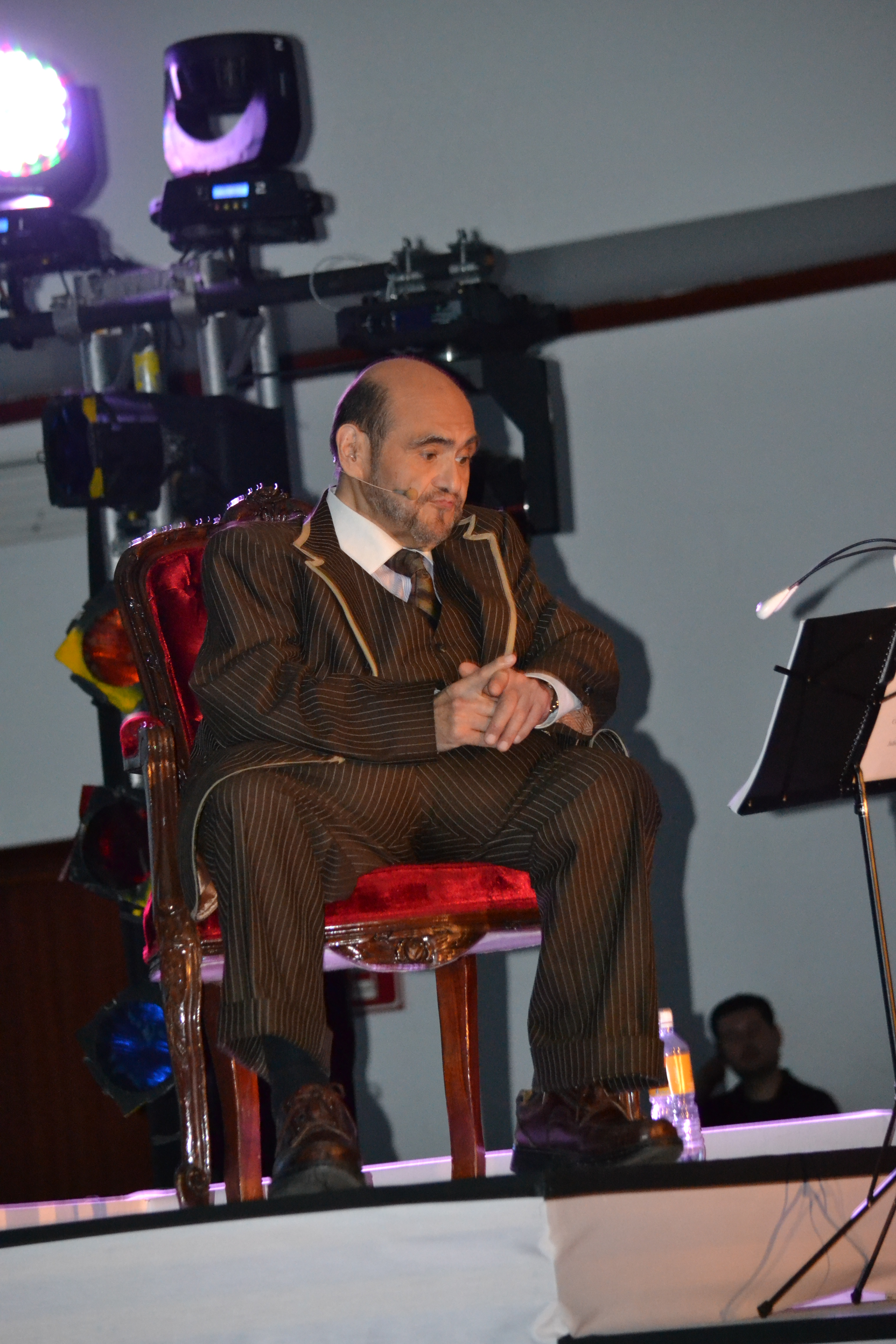 Edgar Vivar at the ITESM-CCM in the "Requiem for Agustin Lara"